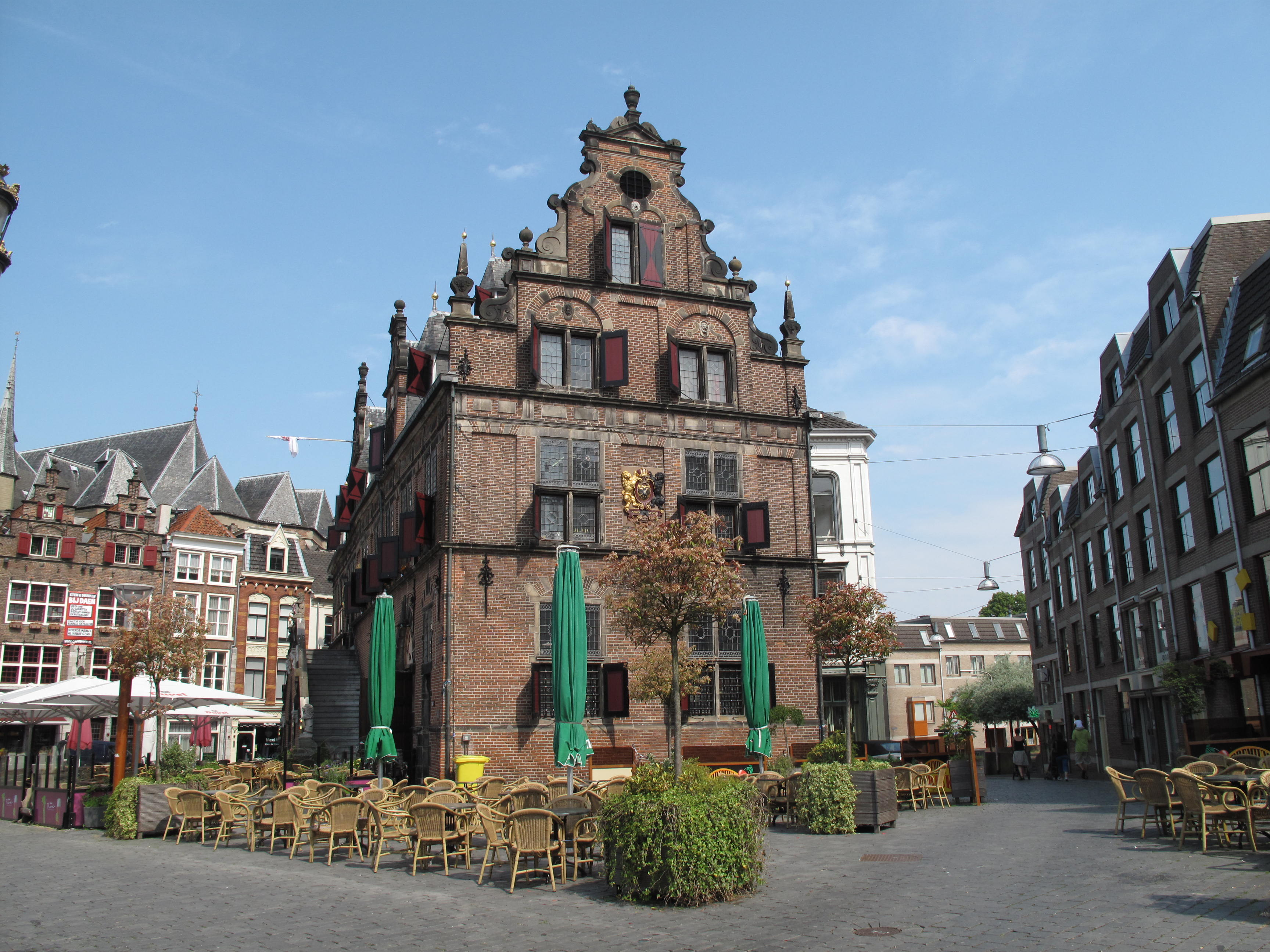 Nijmegen, monumental house